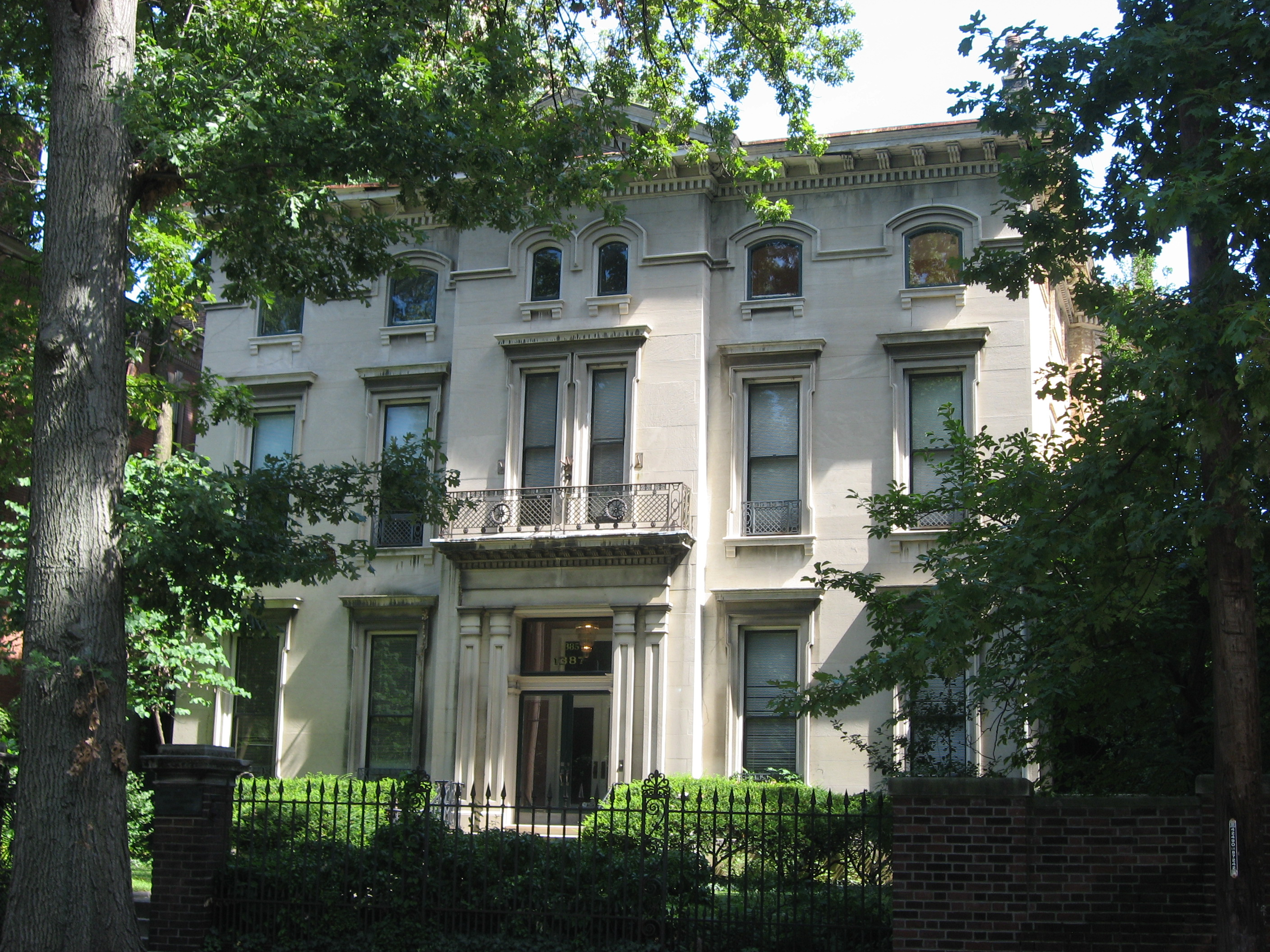 Southern side and front of the Landward House, located at 1385-1387 S. Fourth Street in Louisville, Kentucky, United States. Built in 1871, it is listed on the National Register of Historic Places, and it is part of a Register-listed historic district, the Old Louisville Residential District.